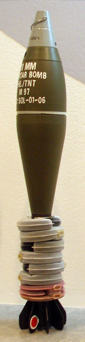 81mm mortar bomb HE/TNT M97